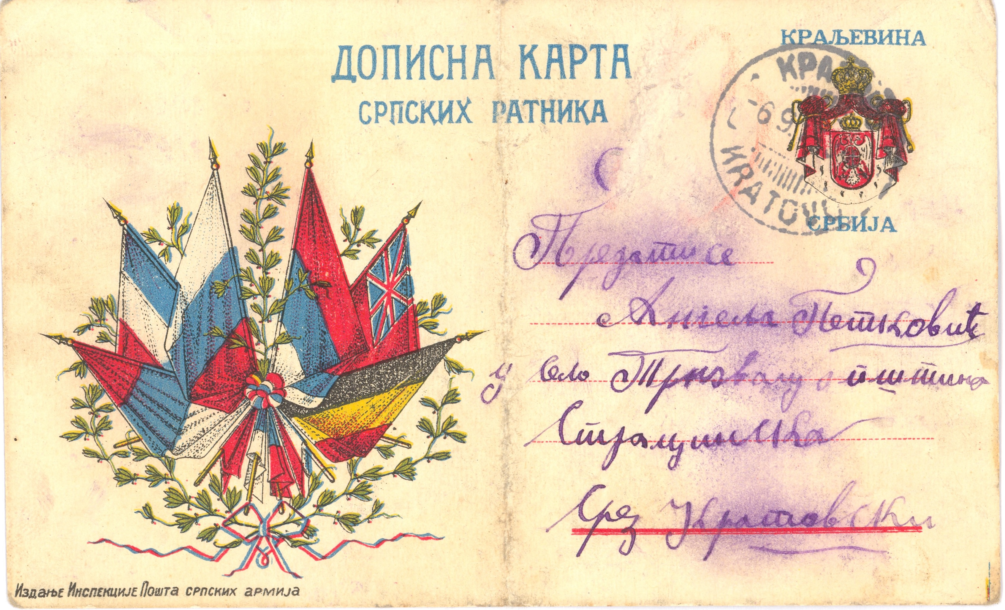 Postcard for soldiers recruited from the Serbian army. This media file is produced by Wikipedian in Residence in Category:Wikipedian in Residence at DARM in 2016.